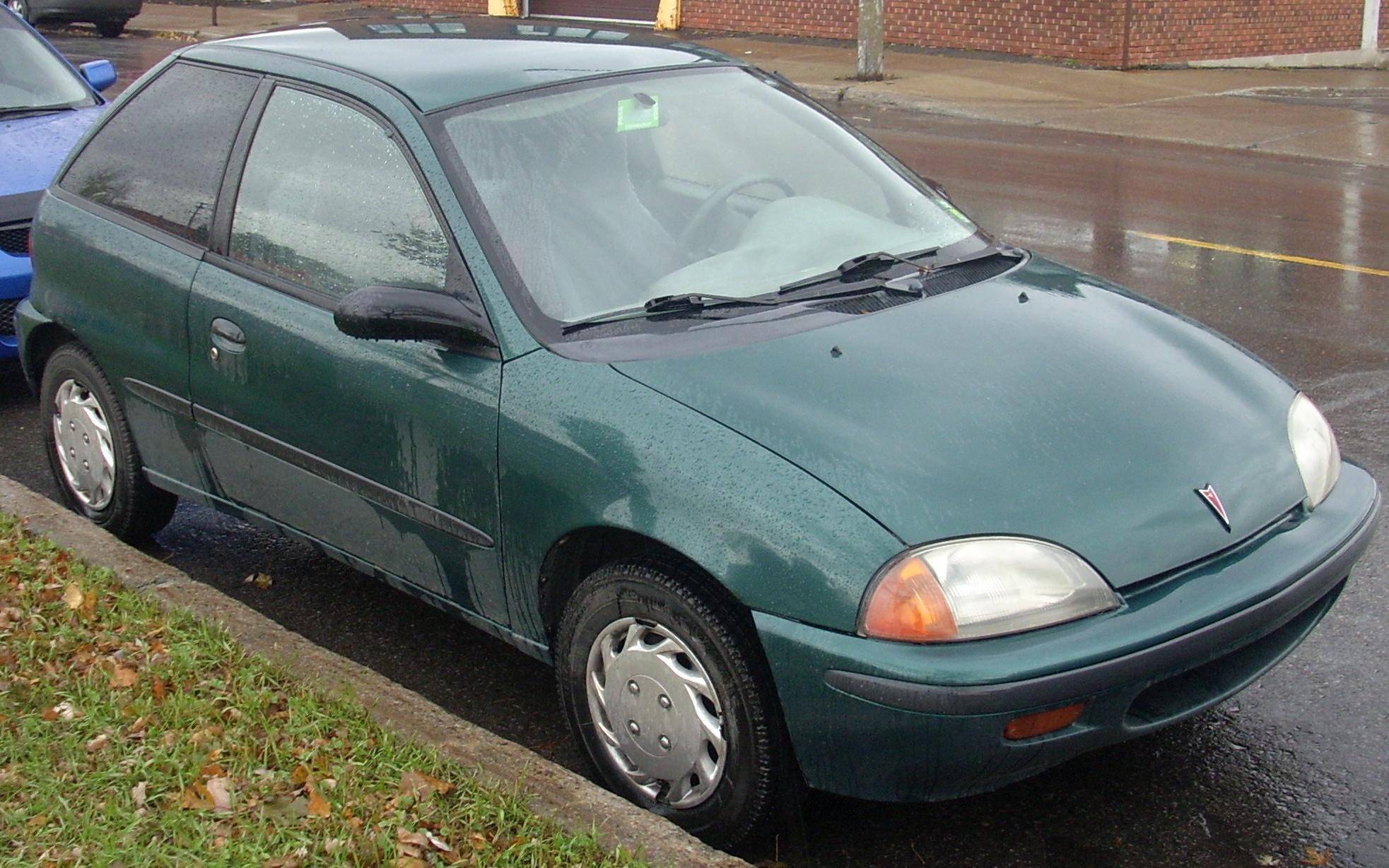 1995-1997 Pontiac Firefly photographed in Montreal, Quebec, Canada.